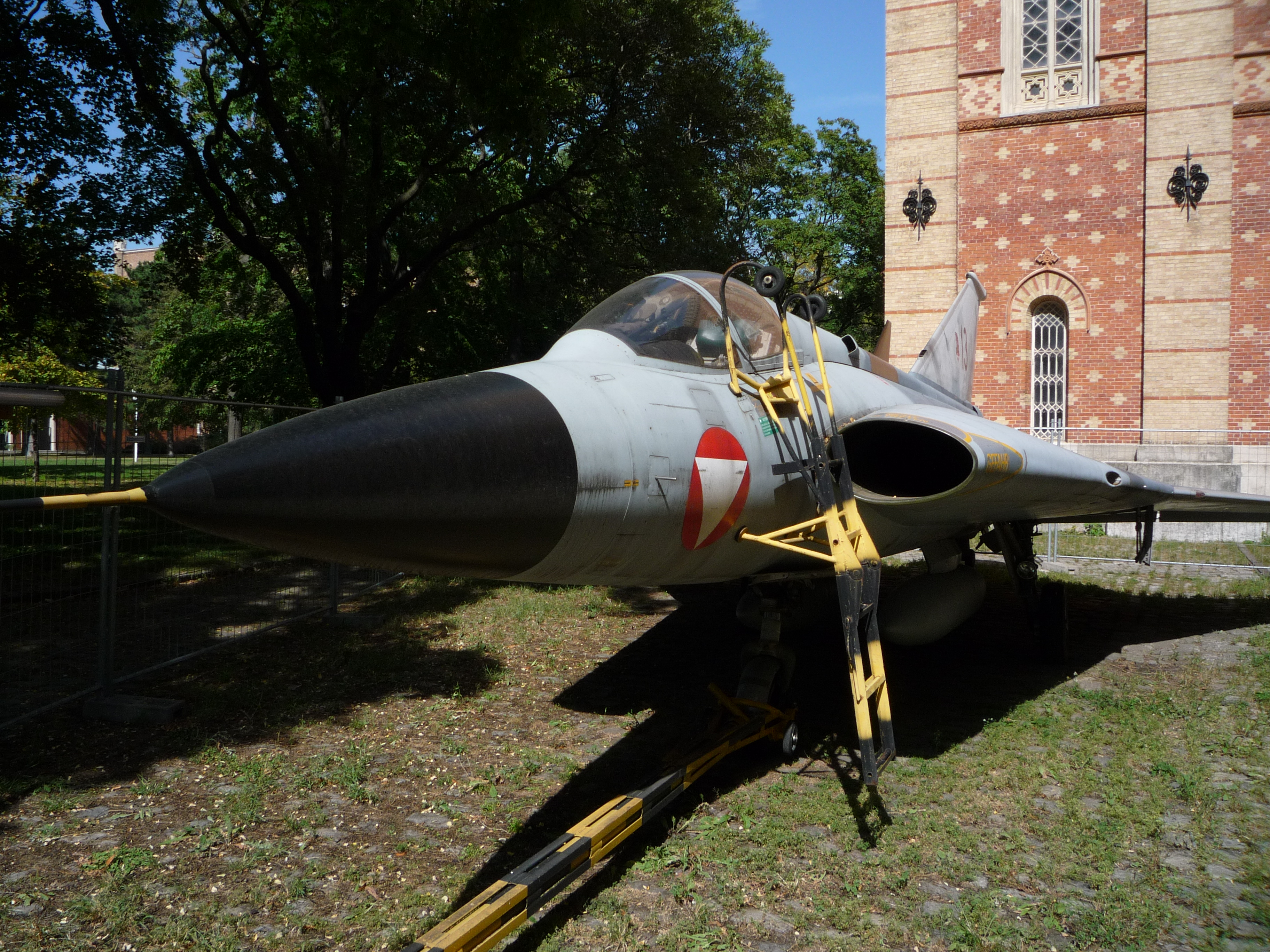 Saab Draken of austrian Bundesheer in Heeresgeschichtlichen Museum